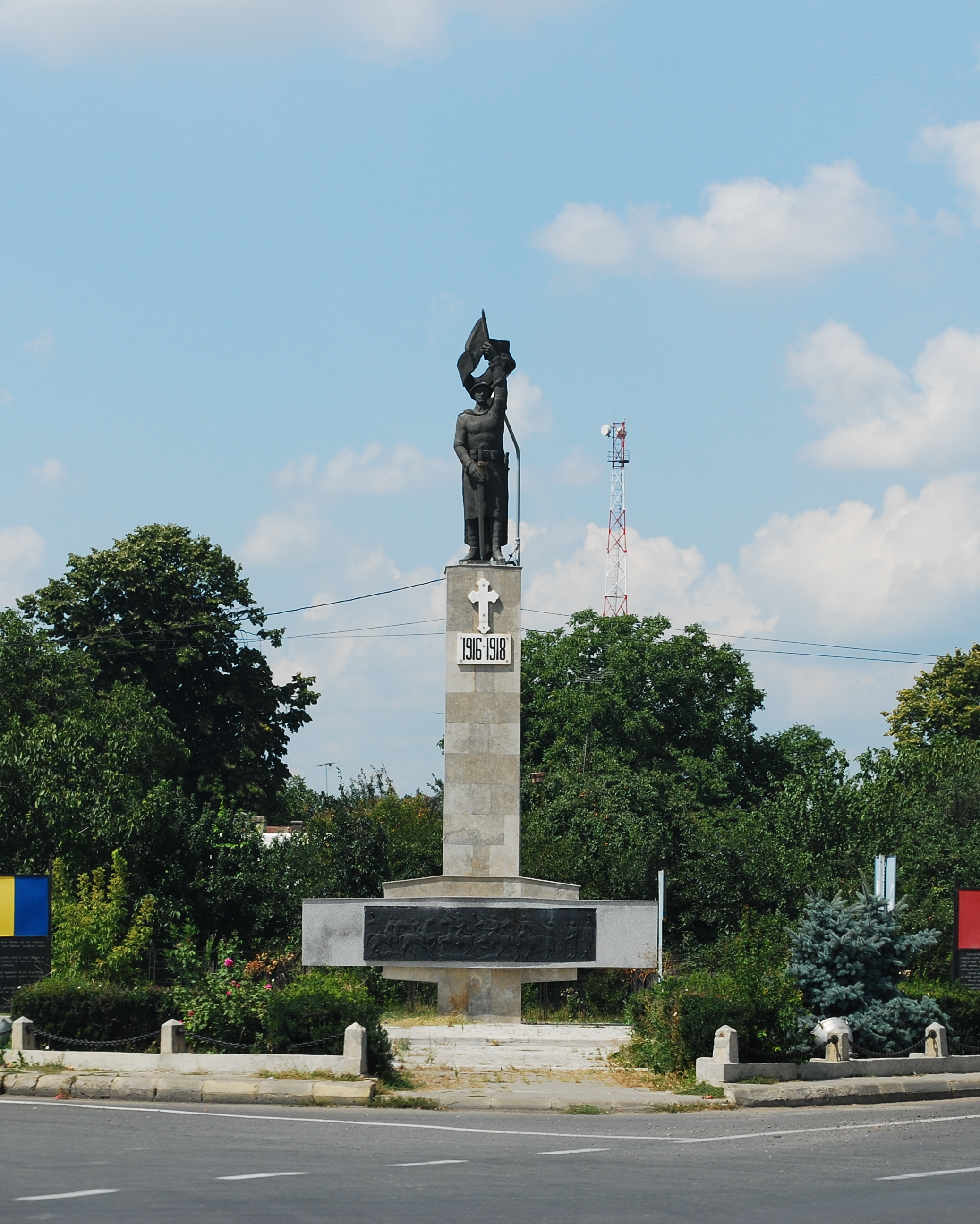 World War I monument in Adjud, Vrancea County, Romania